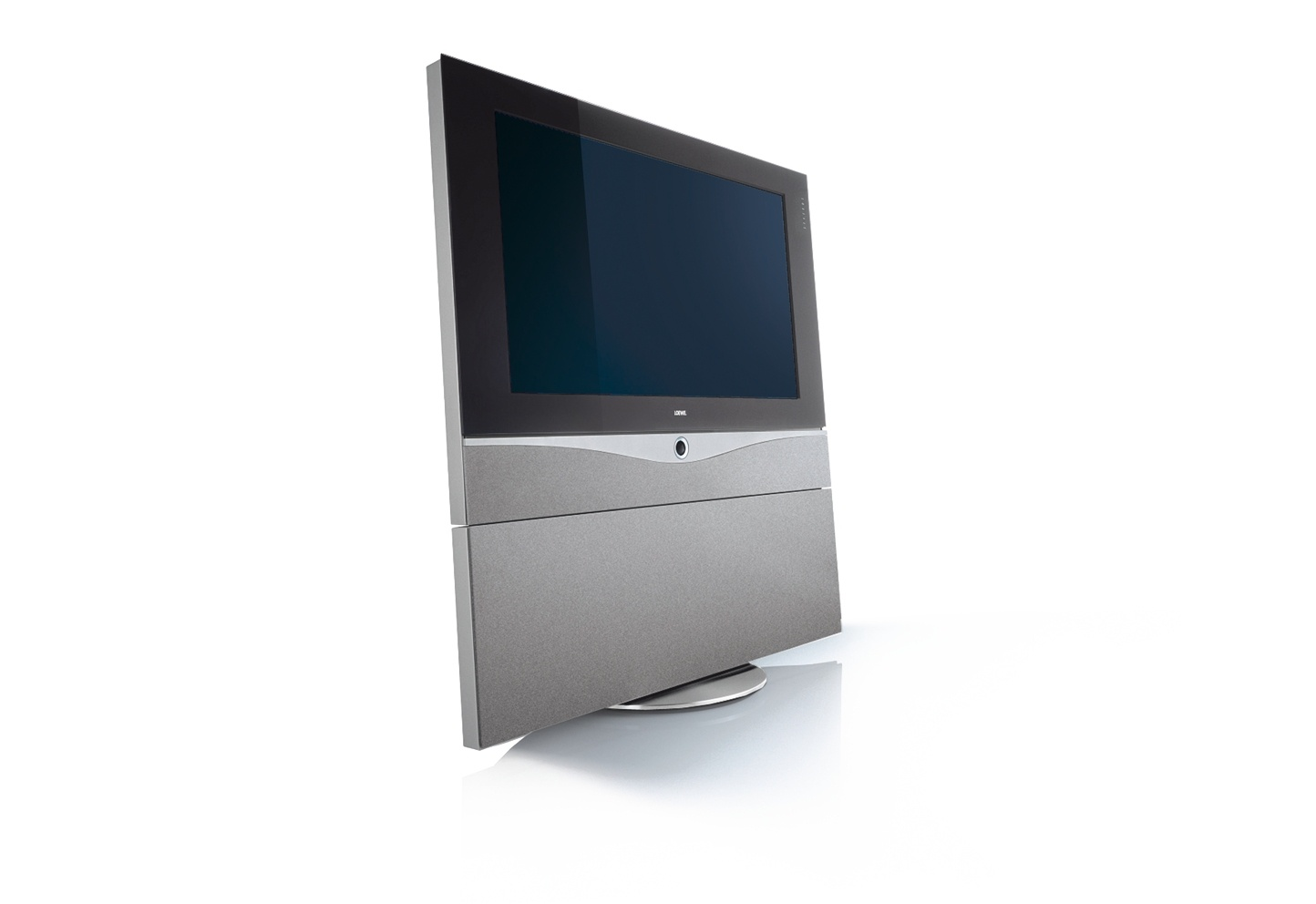 First Loewe flat television Loewe Spheros, 1998